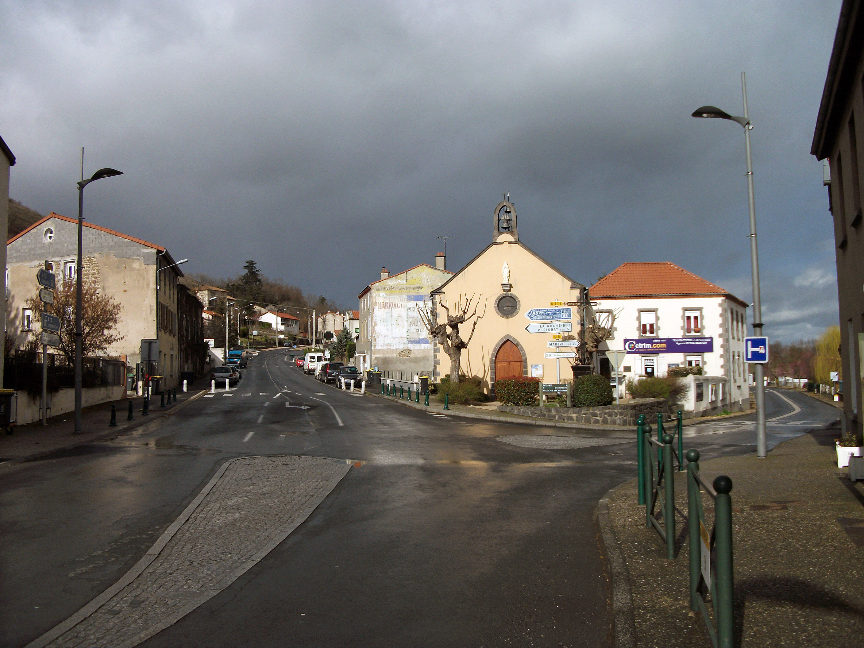 Intersection between departmental roads 978 (Clermont-Ferrand) and 8 (Les Martres-de-Veyre) in Veyre-Monton, Puy-de-Dôme, Auvergne-Rhône-Alpes, France [10172]